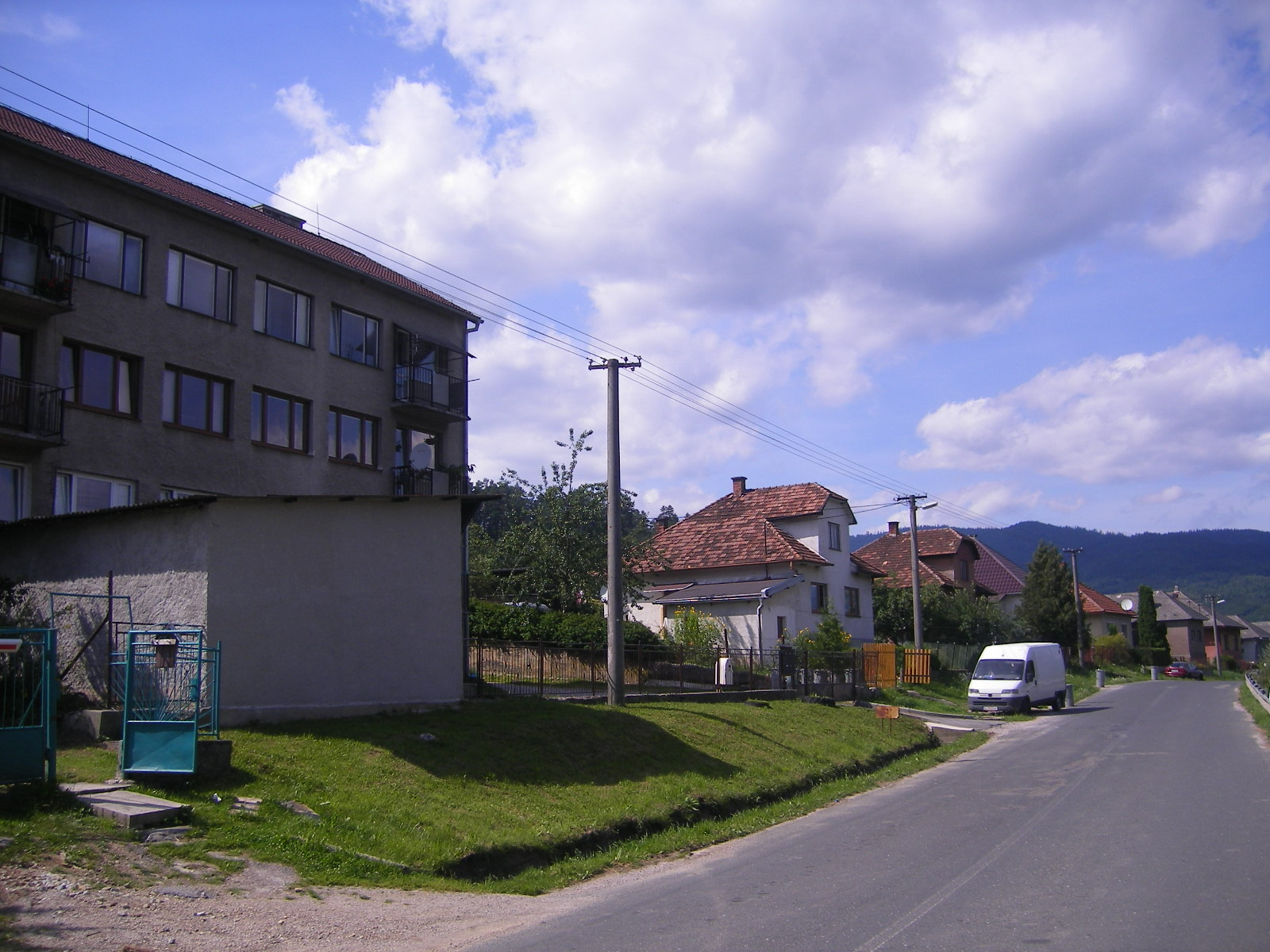 Mníšek nad Hnilcom - street view (Route II/549)